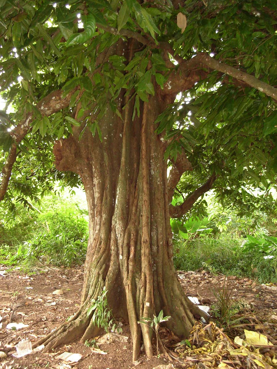 Inocarpus edulis or Inocarpus fagifer (ifi in Tonga), typical trunk